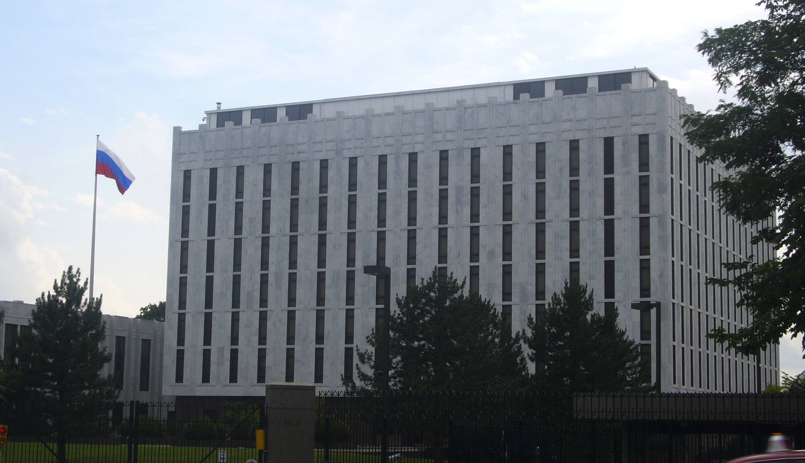 Embassy of Russia in Washington D.C.